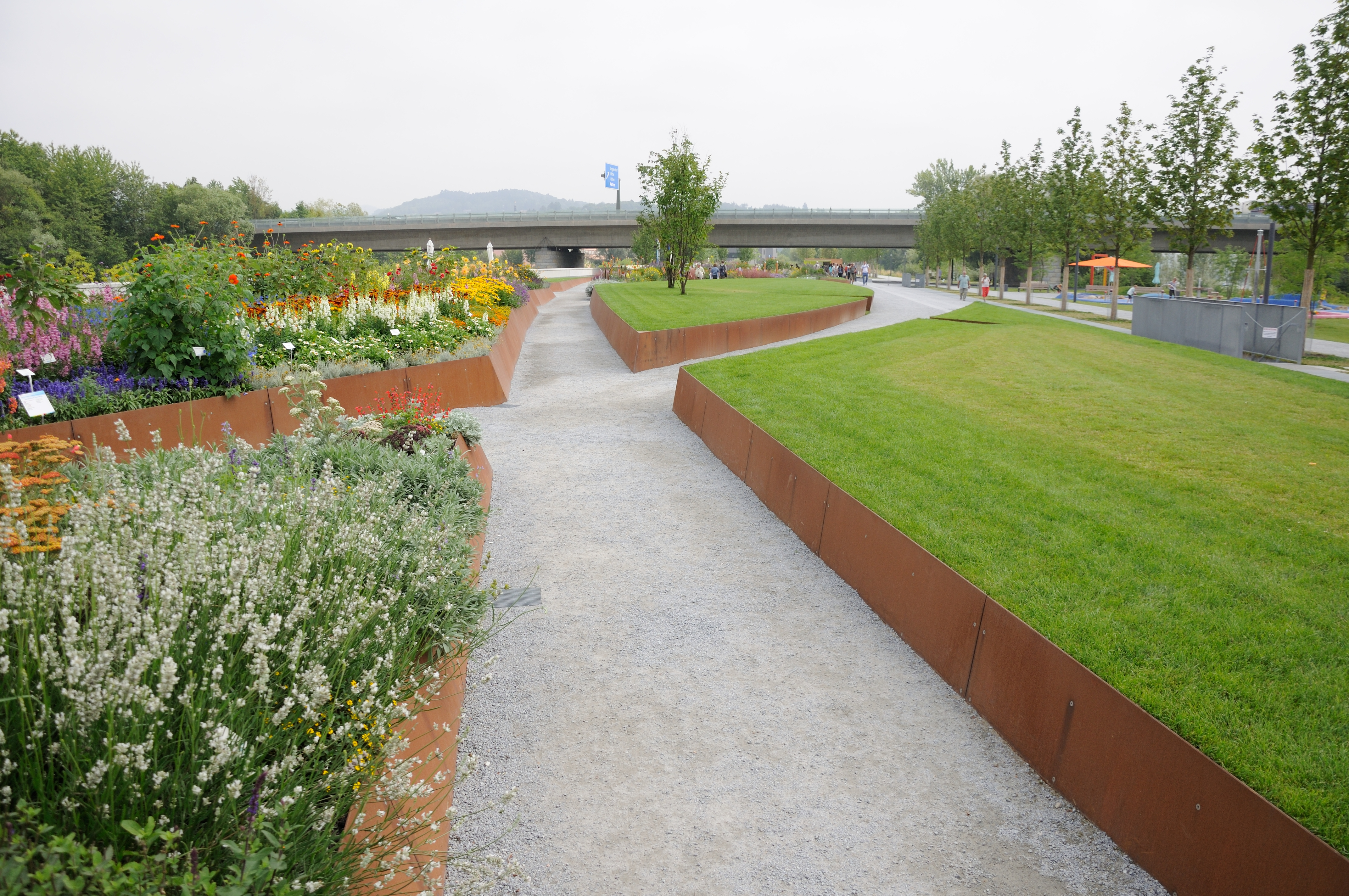 Germany, Bavaria, impressions from the Landesgartenschau in Deggendorf